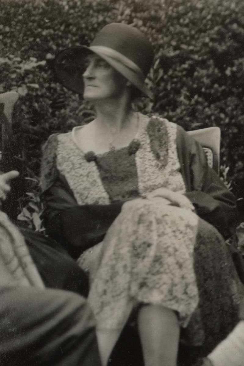 Walter de la Mare; Bertha Georgie Yeats (née Hyde-Lees); William Butler Yeats; unknown woman, by Lady Ottoline Morrell (died 1938).